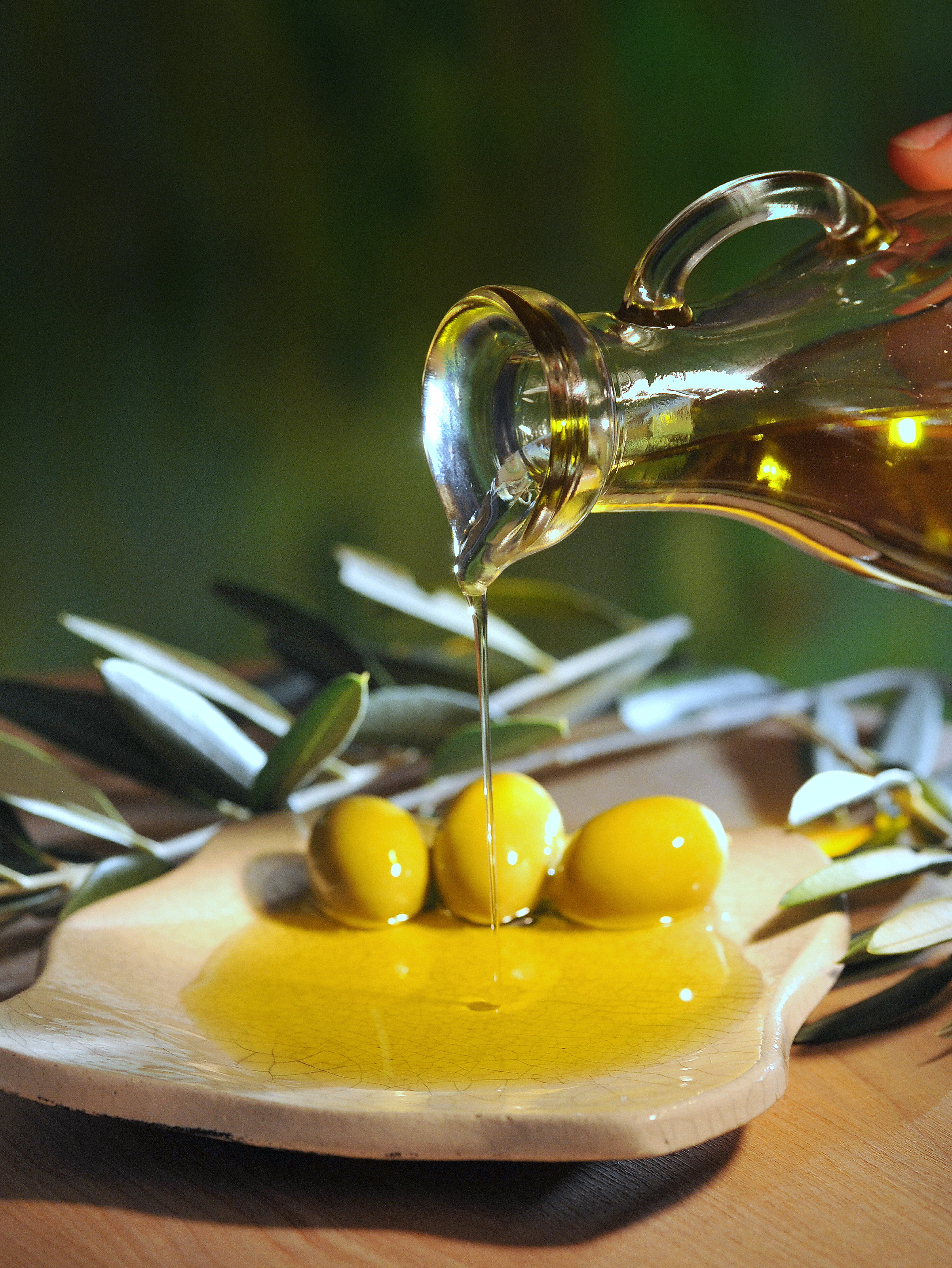 Traditional Olive oil